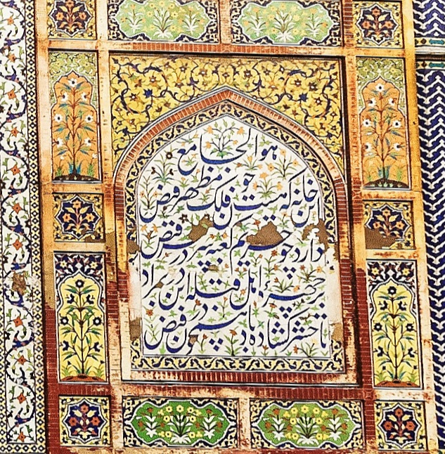 Right-side Fresco behind Window of Wazir Khan Mosque, Walled City of lAHORE